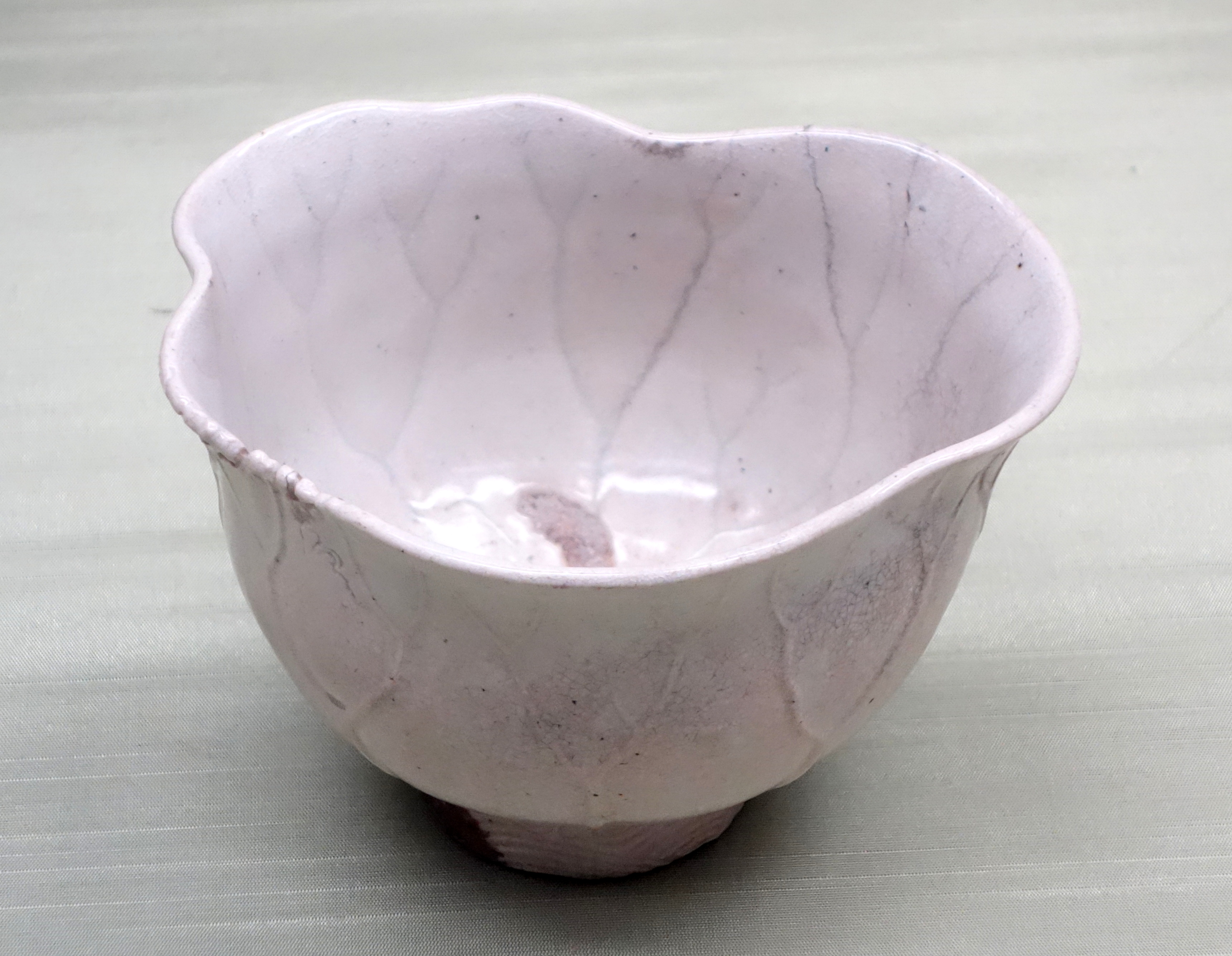 Exhibit in the Tokyo National Museum, Tokyo, Japan. This artwork is old enough so that it is in the public domain.